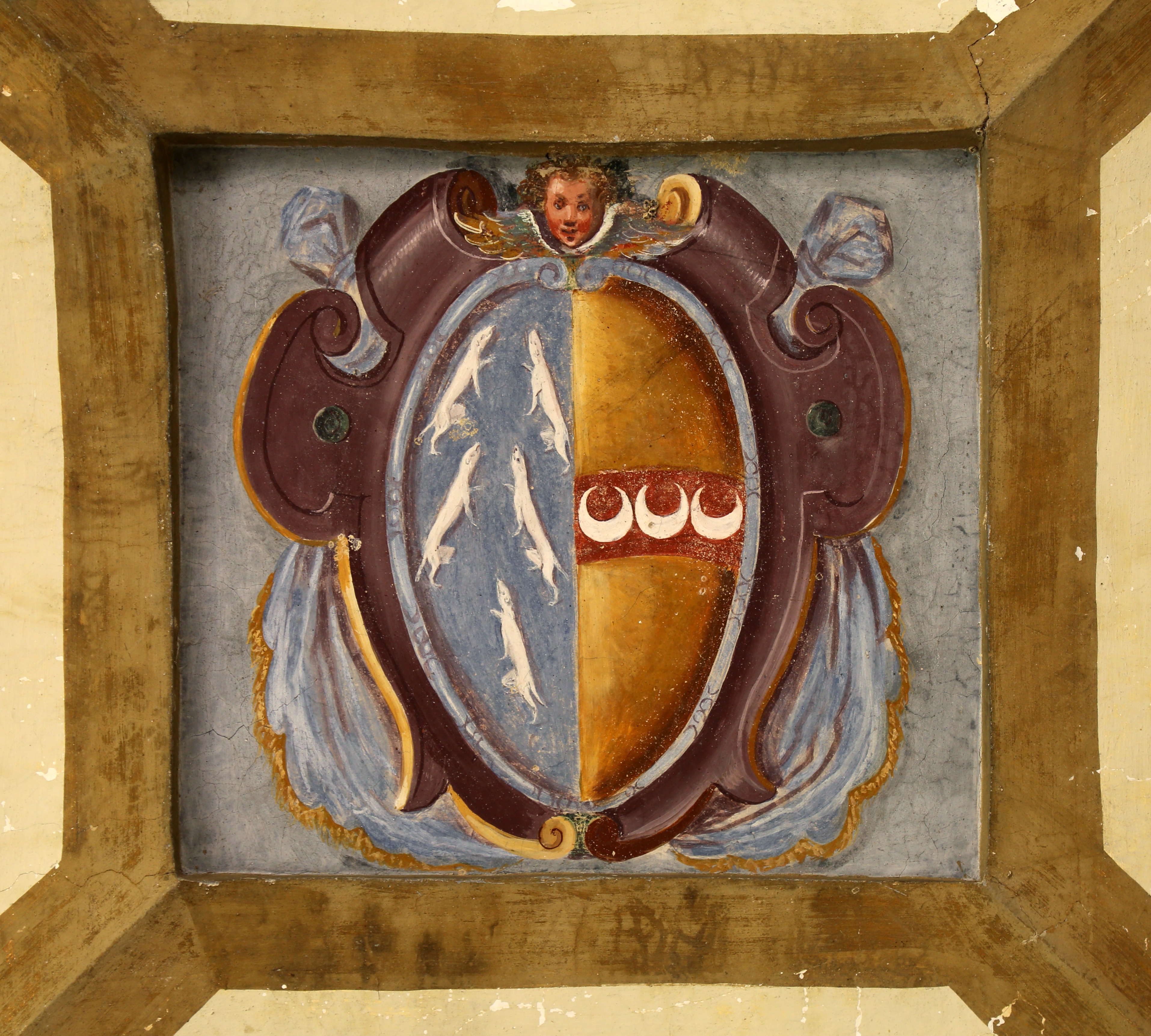 Villa Il Riposo dei Vecchietti